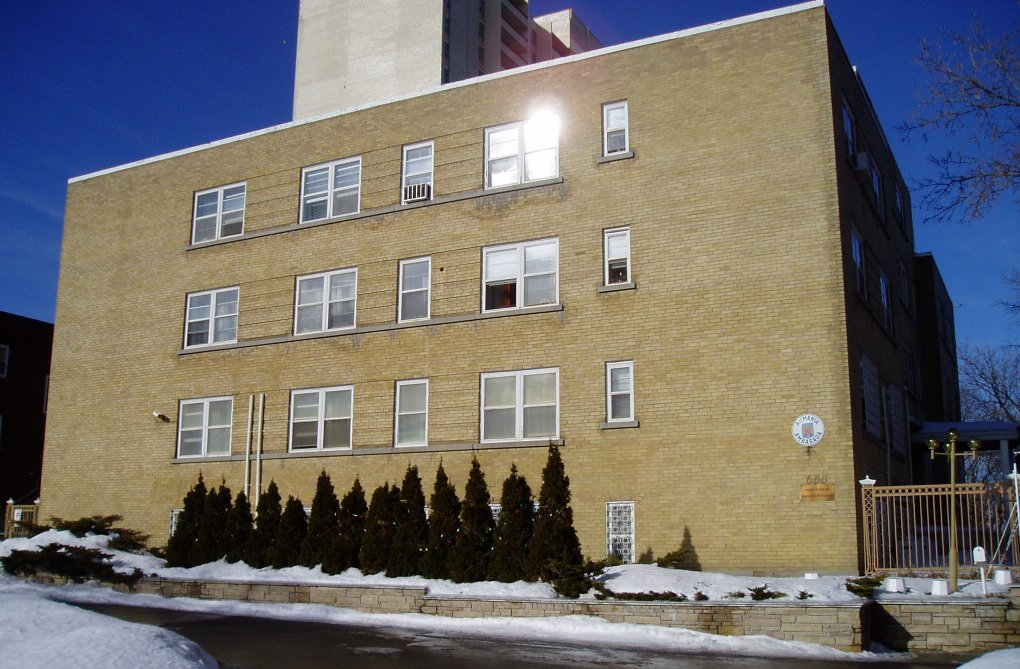 Taken by SimonP in January 2005